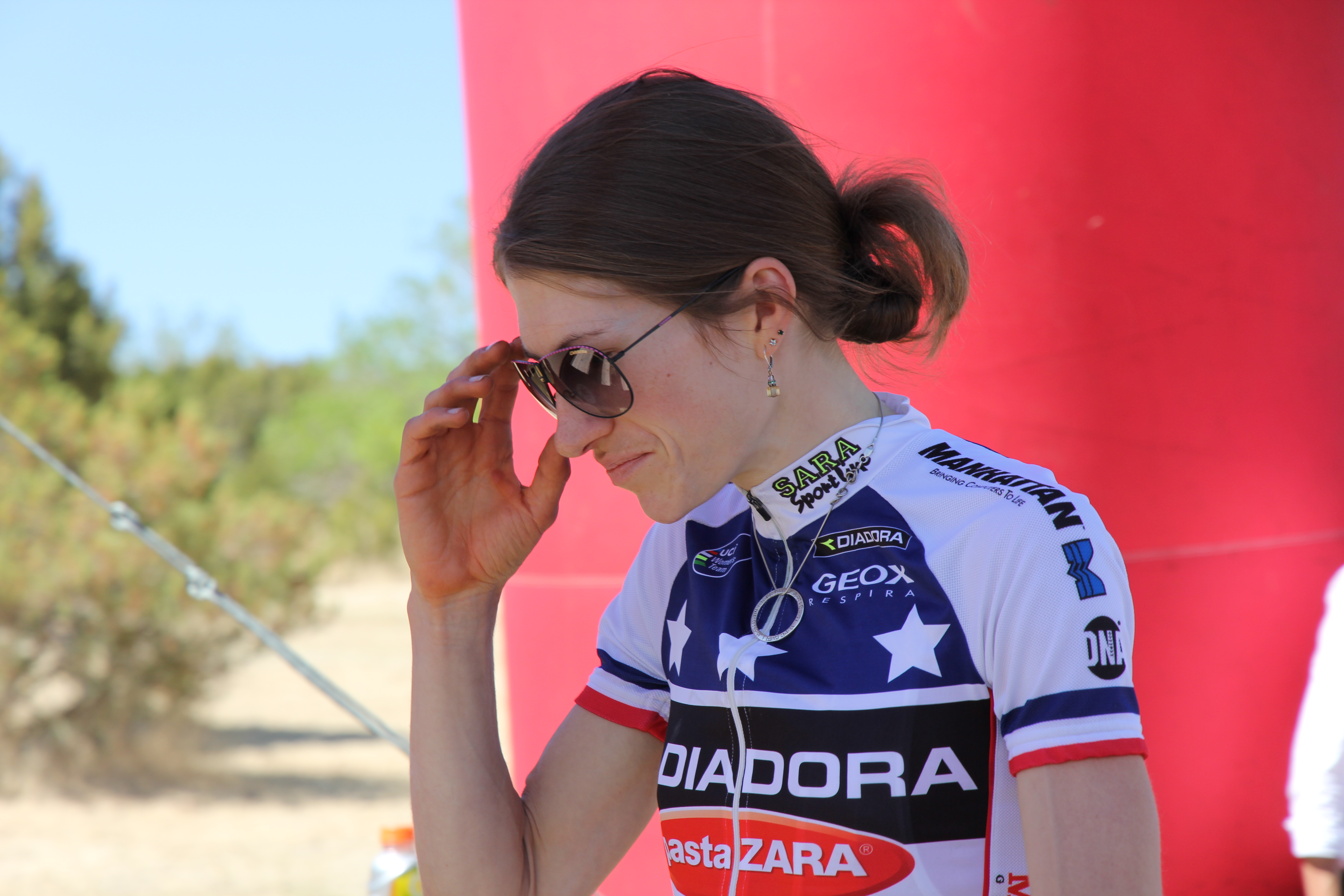 American cycling Mara Abbott at the 2011 Tour of the Gila, wearing the jersey of UCI Women's Team Diadora-Pasta Zara